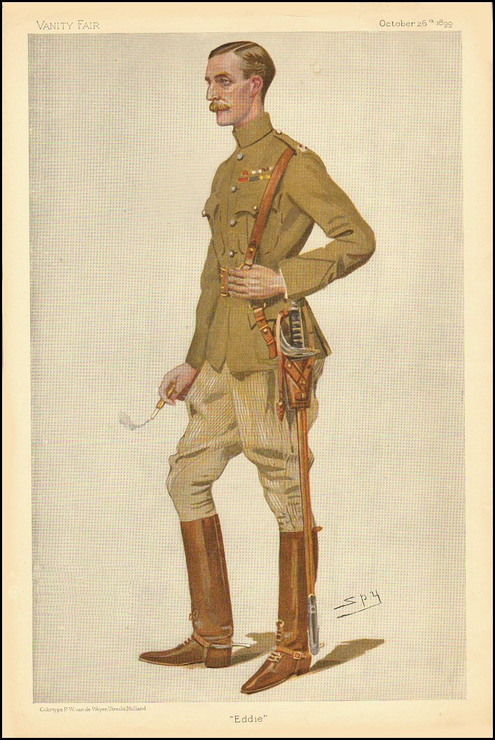 Men of the Day No.0762: Caricature of Maj EJ Montagu-Stuart-Wortley CMG DSO. Caption reads: "Eddie"